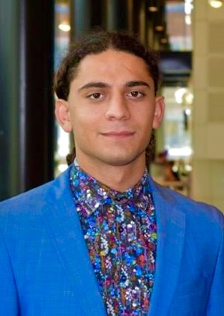 Danish poet and writer with Palestinian background at Kuben Vocational Arena, Oslo